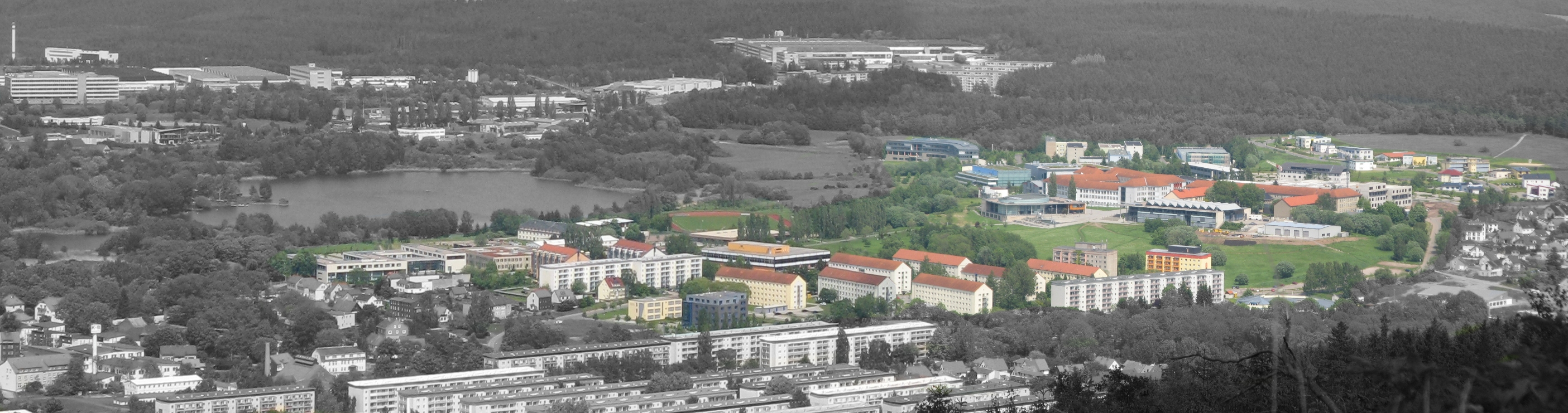 Campus of the lmenau University of Technology, view from Lindenberg (Ilmenau)